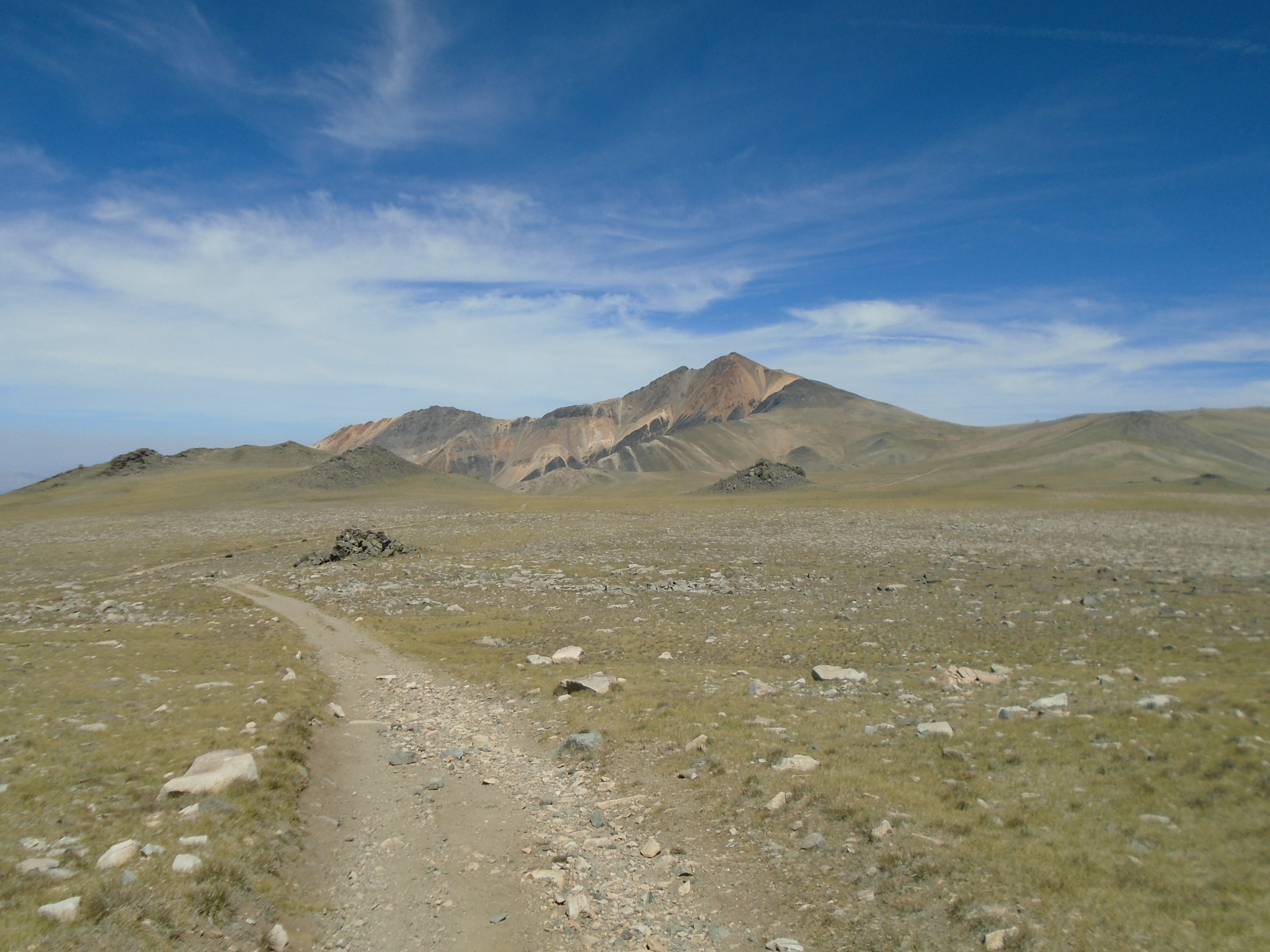 White Mountain Peak